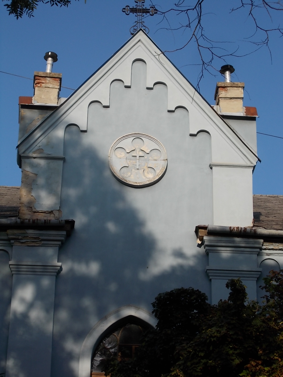 Part of 'Benczúr Square east and west side' monument complex - 10 Bessenyei Square, Nyíregyháza, Szabolcs-Szatmár-Bereg County, Hungary.